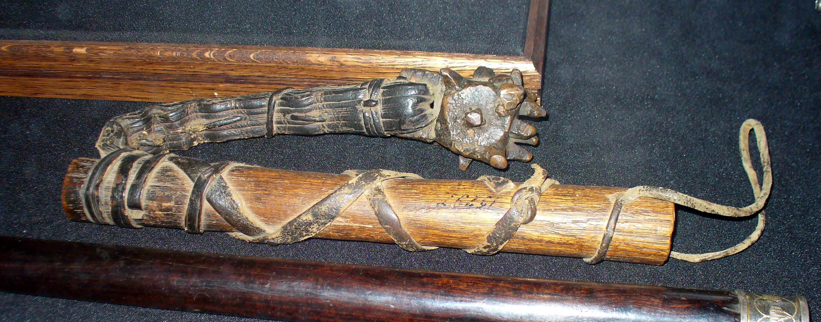 Cavalry flail, Russia, begin of 16 cent.